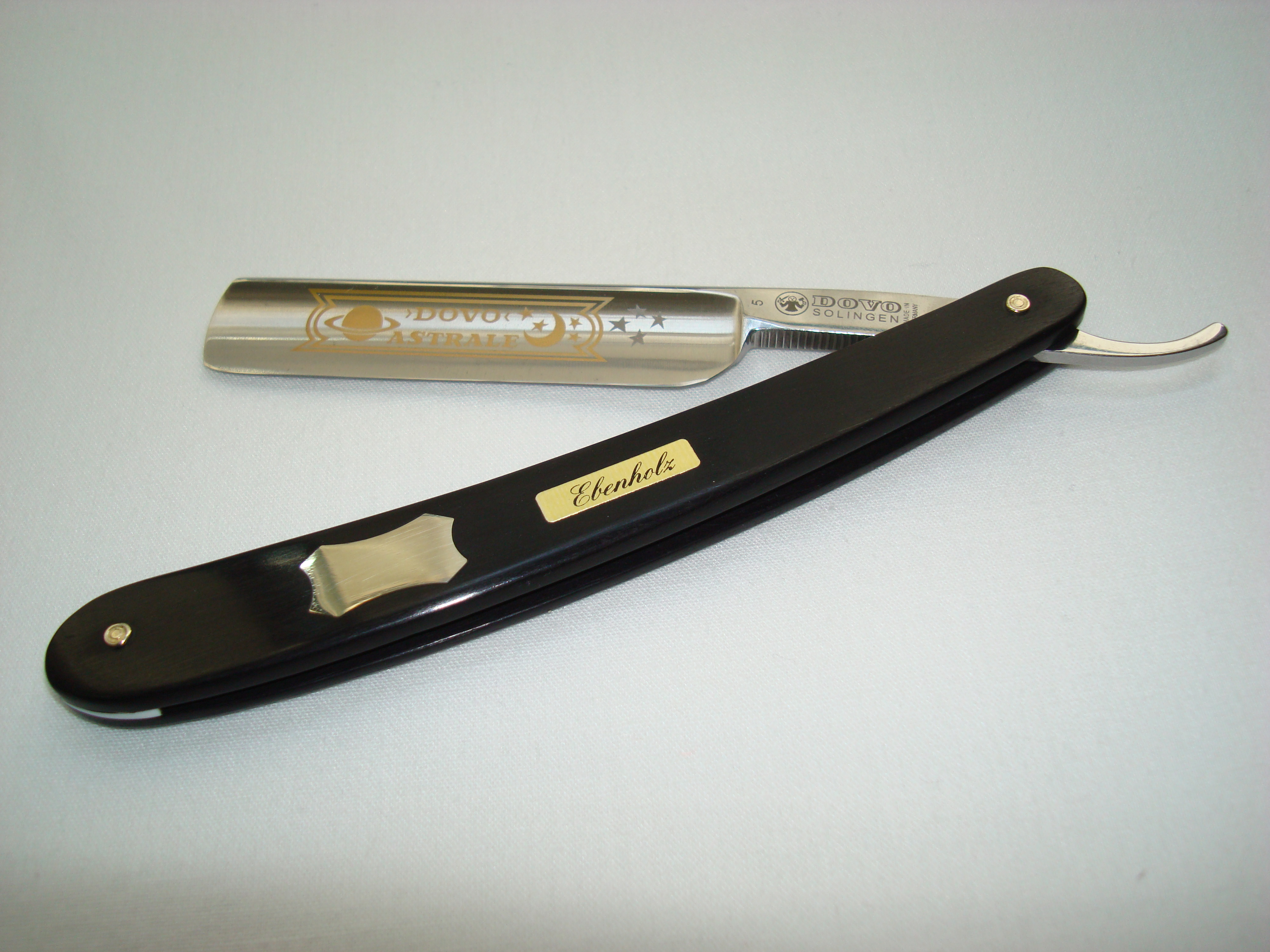 Razor - Ebony